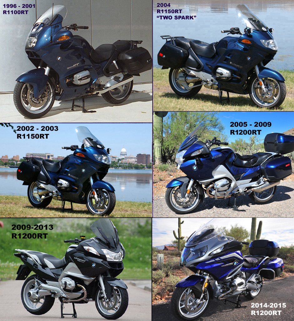 These are six generation of BMW RT motorcycles from 1996 to 2015.